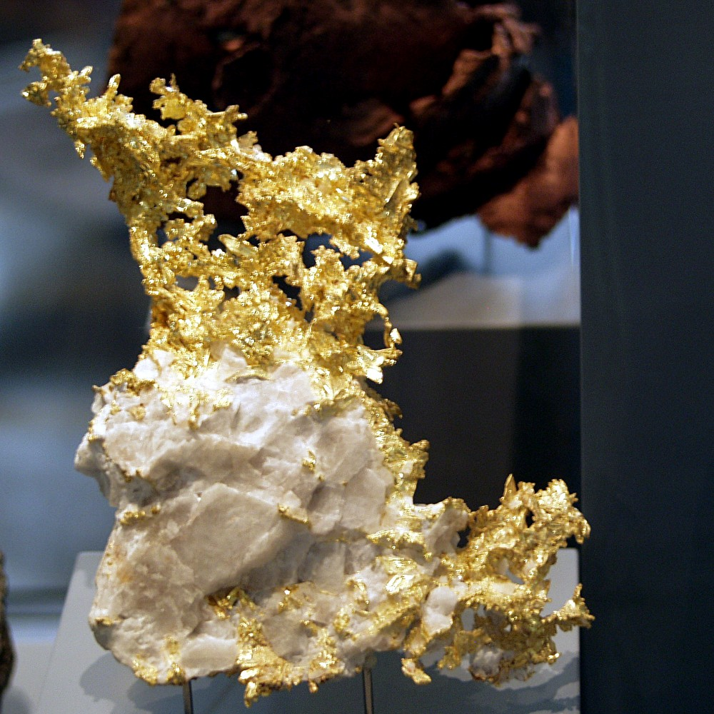 Native gold in quarz - Eagles Nest Mine, Placer County, California, USA. To make the gold crystals visible, the quartz was partially etched away. Museum für Naturkunde (Berlin).